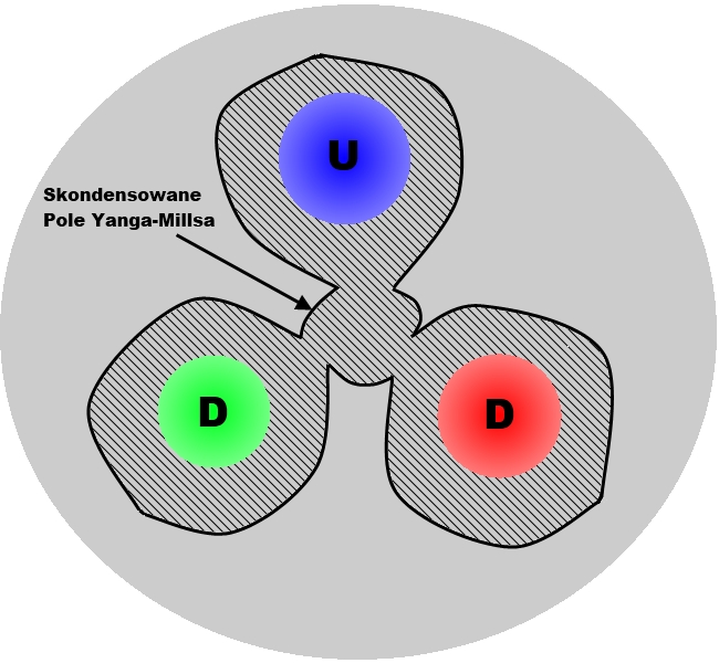 Schematic image of Condensed Yang-Mills Field. U - Up quark D - Down quark.